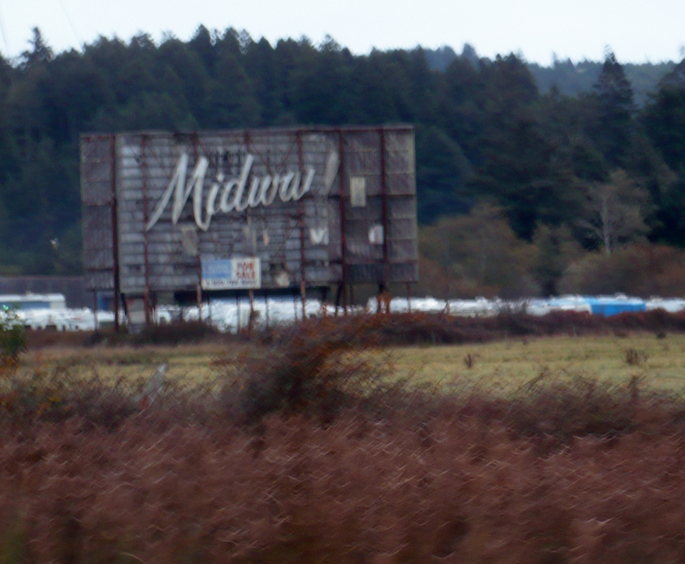 A view of the Indianola, California Midway Drive-In taken from US 101. The drive-in opened in 1951 with parking for 450 cars and closed in September 1986. Like many other Midway Drive-In theaters, the name refers to its location midway between the towns of Eureka and Arcata in Humboldt County, California. Indianola is a census-designated place located 4 miles (6.4 km) south of Arcata, at an elevation of 46 feet (14 m) in Humboldt County, California. The blur in the photograph is because the only way to get this view is to take it from a moving vehicle.